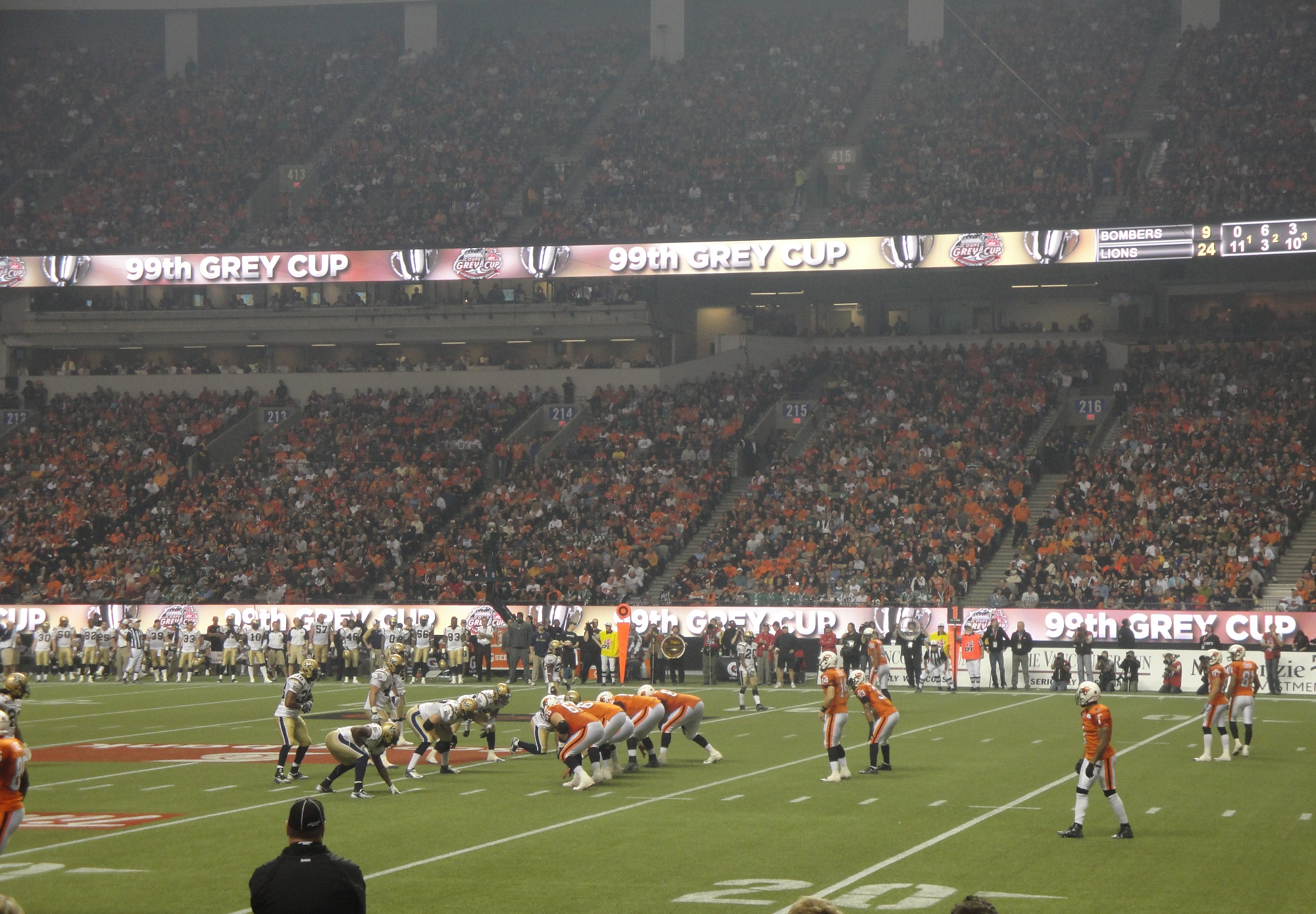 This picture shows the BC Lions on offense against the Winnipeg Blue Bombers in the 99th Grey Cup in BC Place Stadium.